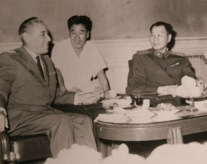 Piszker Tibor in Beijing, 1964